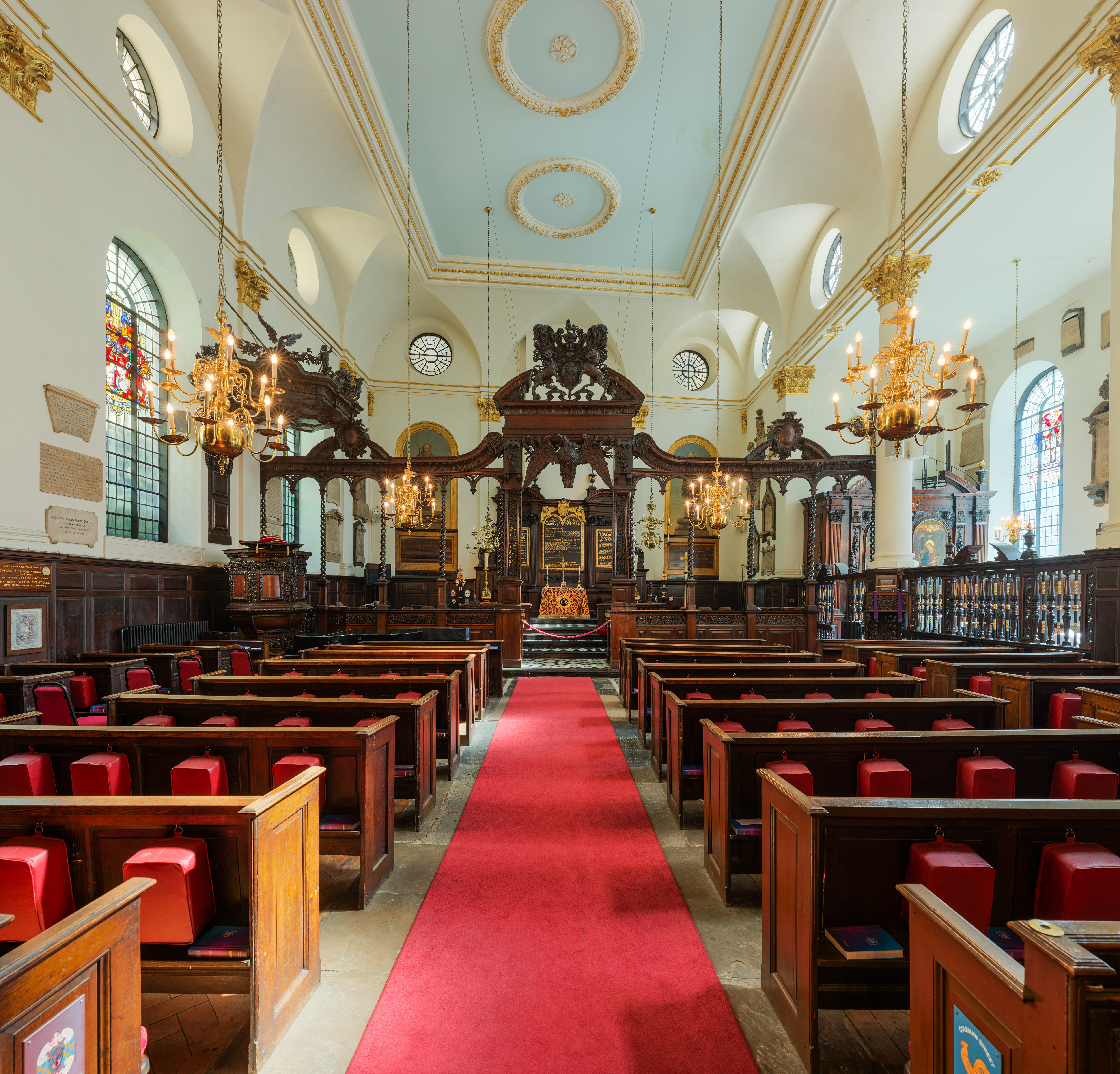 The interior St Margaret Lothbury Church, looking towards the altar.